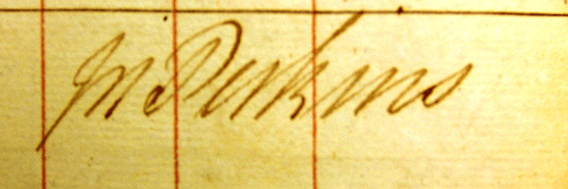 Captain John Perkins signature.